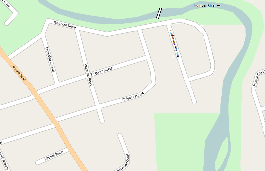 This map of Raymore Drive before Hurricane Hazel was created from OpenStreetMap project data, collected by the community. This map may be incomplete, and may contain errors. Don't rely solely on it for navigation.